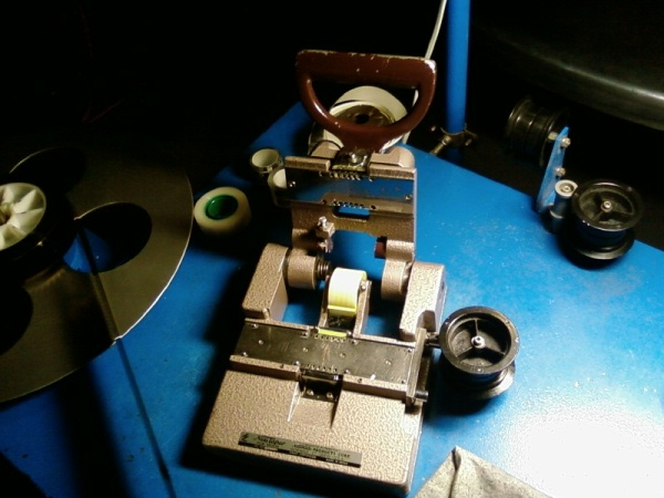 Device used to stick together parts of 35mm film gauge.